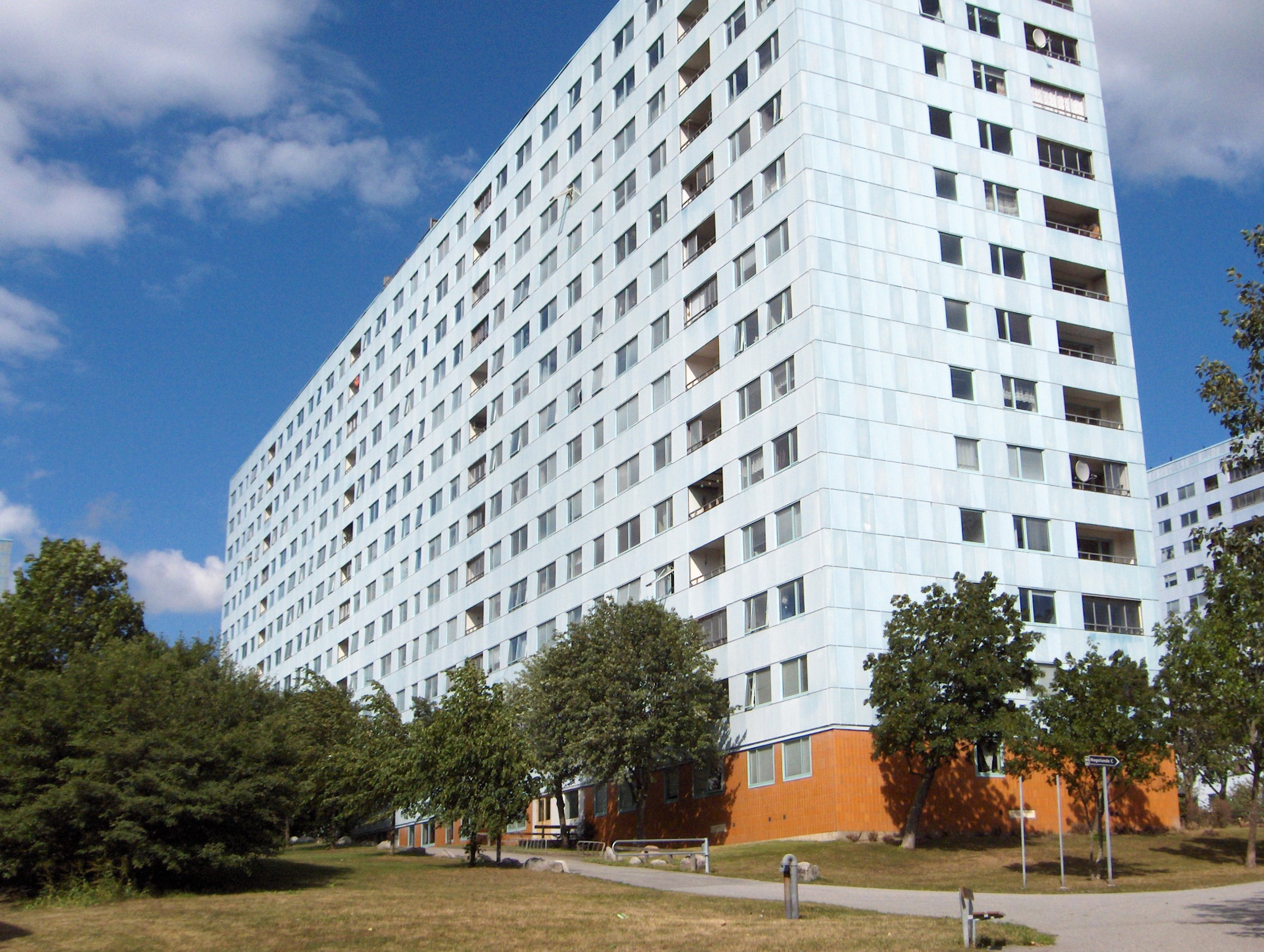 A characteristically blue building in Hagalund, Solna, Sweden.